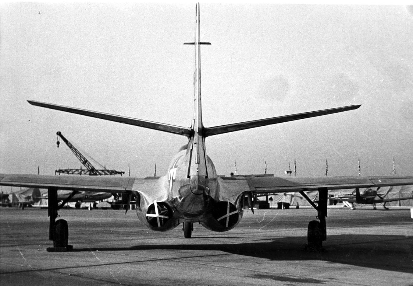 Tail view of a Bell XP-83 (the first prototype S/N 44-84990?), later XF-83.